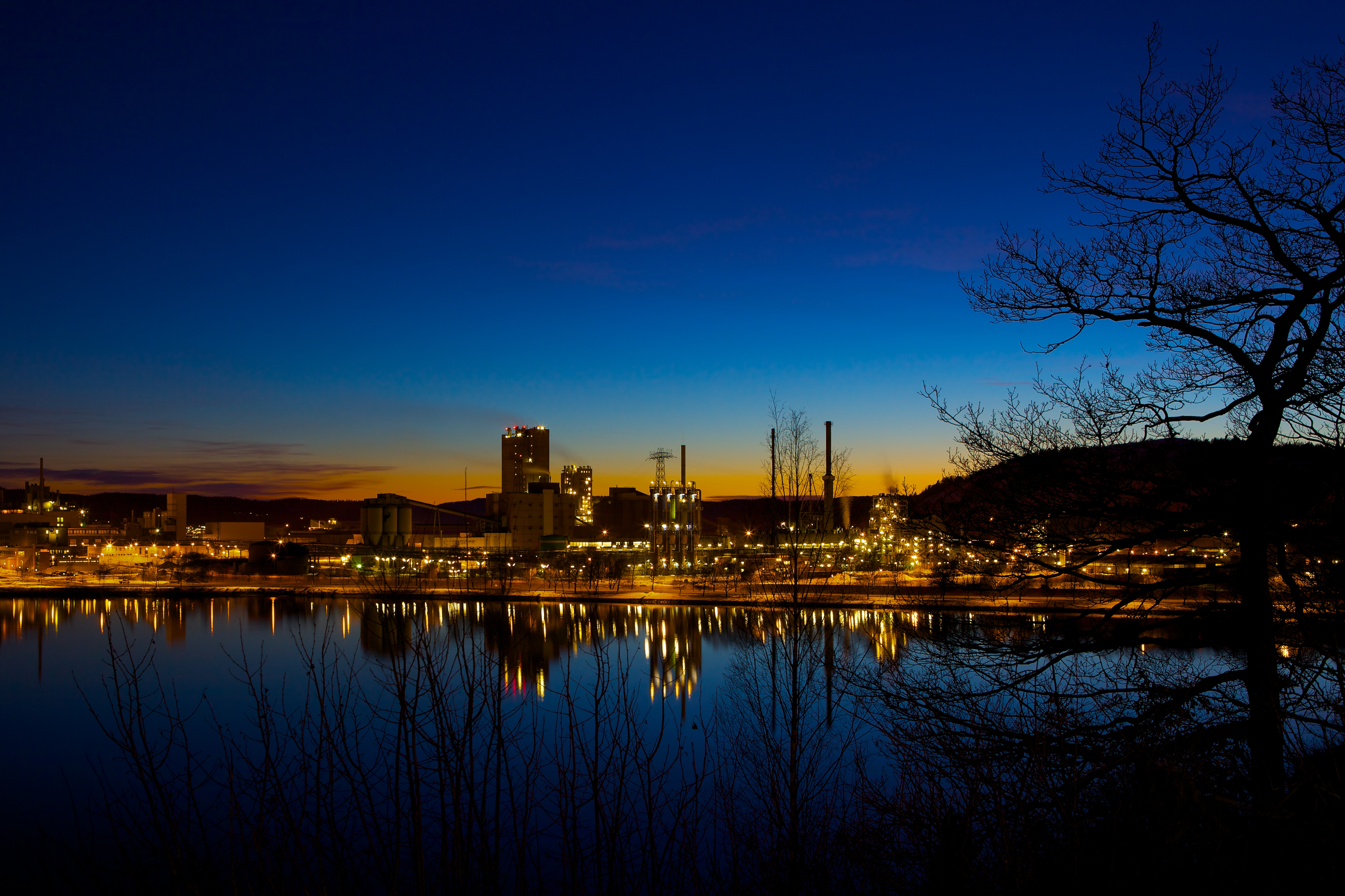 Hydro Herøya, Porsgrunn Best viewed on black – click on the image!